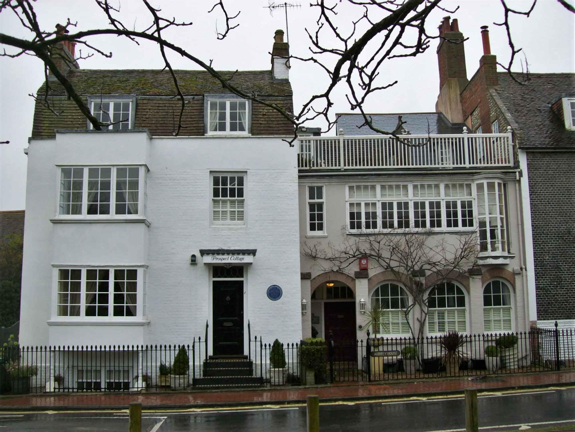 Prospect Cottage, home of Edward and Georgiana Burne-Jones and Aubrey House, home of novelists Enid Bagnold and Angela Thirkell, Rottingdean